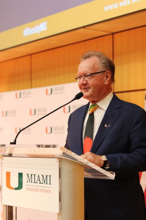 John Quelch speaking during an event in Miami Business School